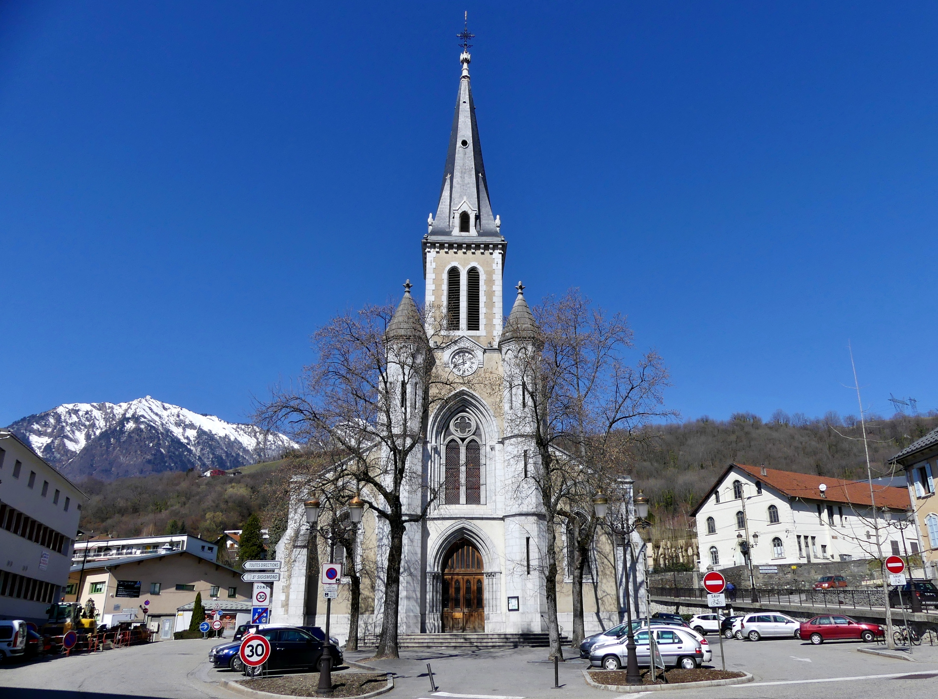 Sight of the Saint-Jean-Baptiste church of Albertville, in Savoie, France.